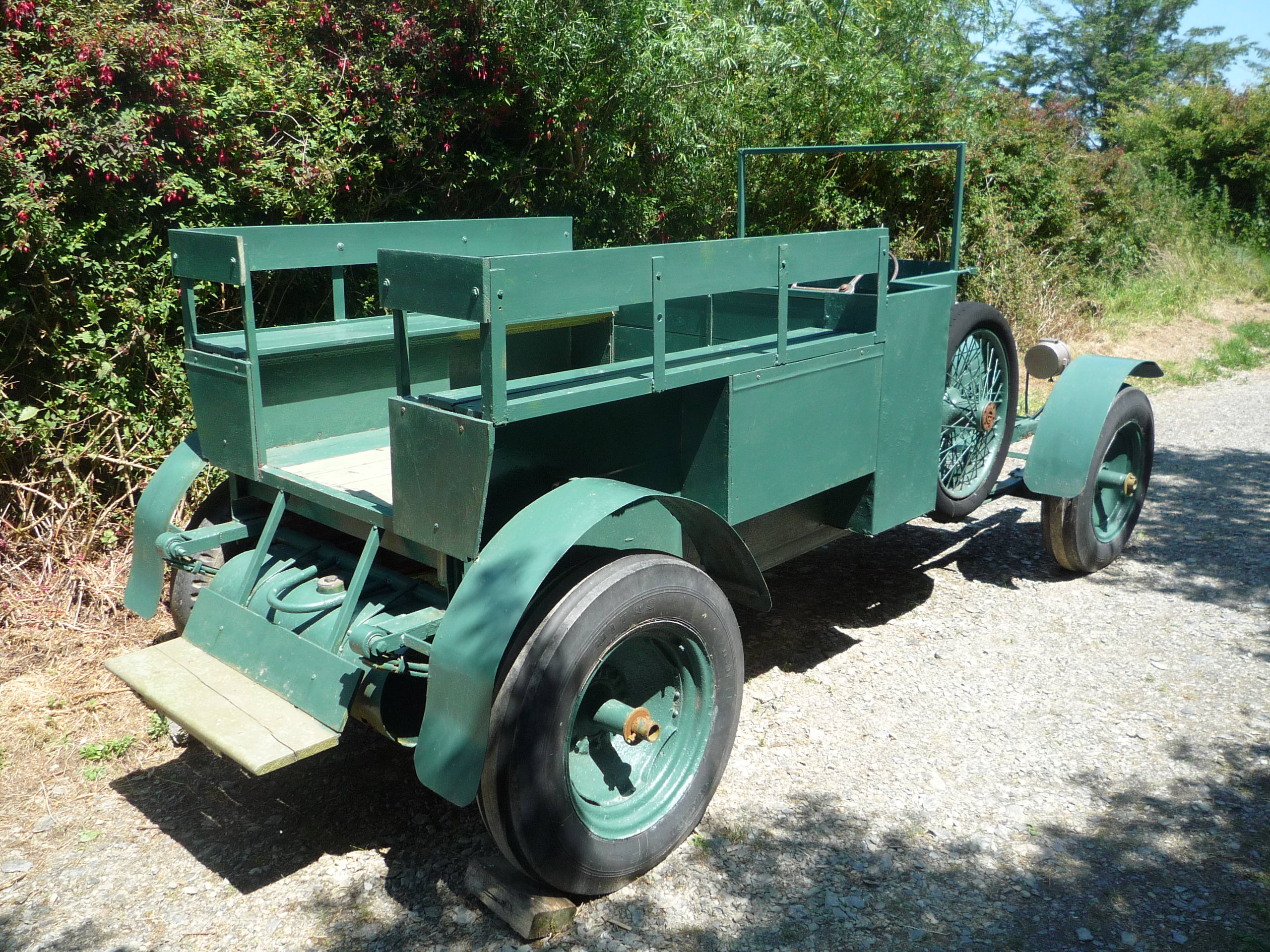 A somewhat crude replica of a Crossley Tender link on display at the Michael Collins Centre between Clonakilty and Timoleague, County Cork, Ireland. It stands on a bit of road built to simulate the point at Béal na Bláth where Collins was killed. A few yards away is a replica of the armoured car which was also in the convoy. At this centre you get a very detailed, step by step description of Collins' death. The article here on the same subject stresses the uncertainty that exists about the incident.